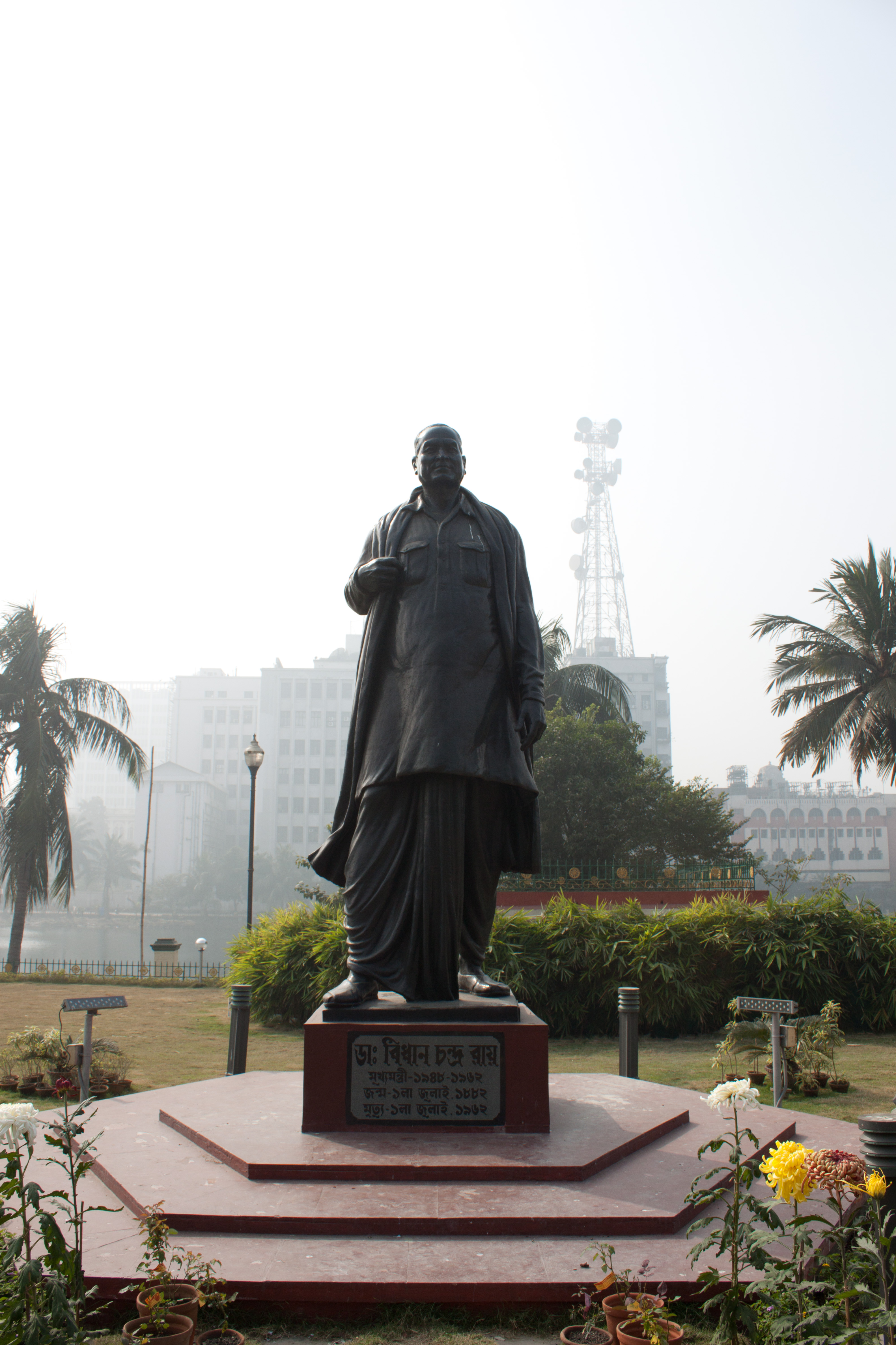 Statue of Bidhan Chandra Roy in front of the Writers Building